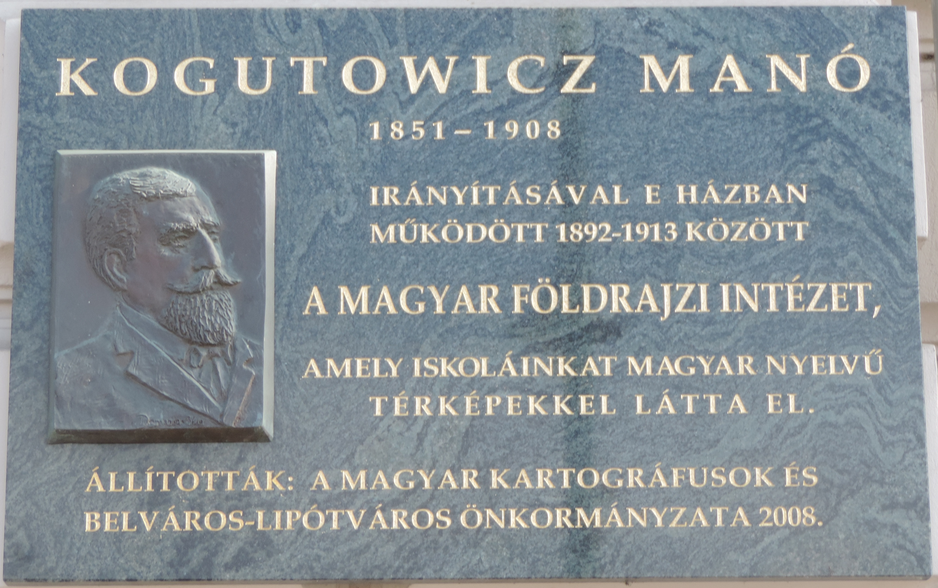 Commemorative plaque of Manó Kogutowicz in Budapest District V, Széchenyi rakpart No 8